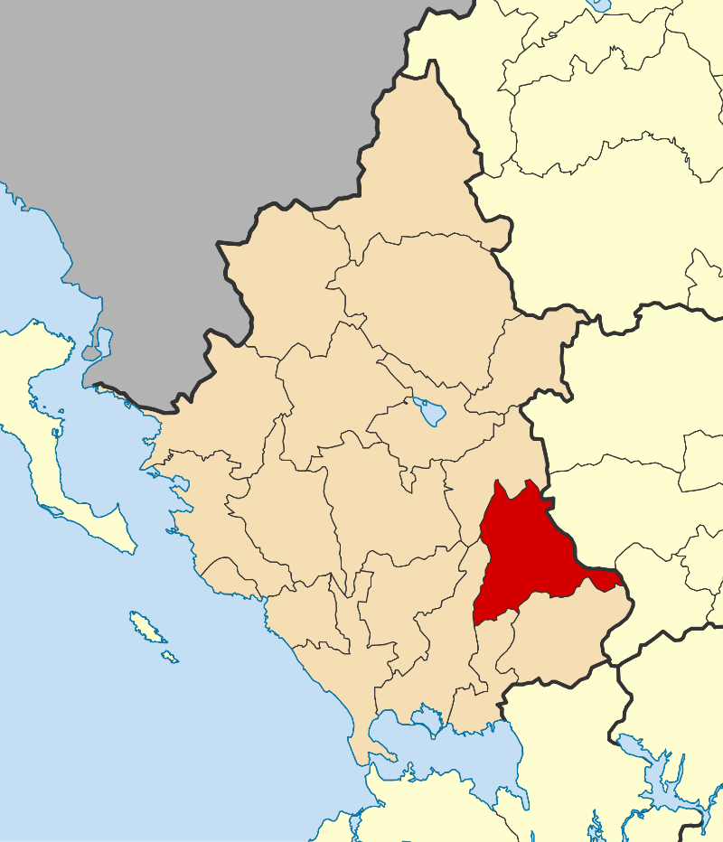 Locator map for Kendrika Tzoumerka municipality in Greek region Epirus (2011)